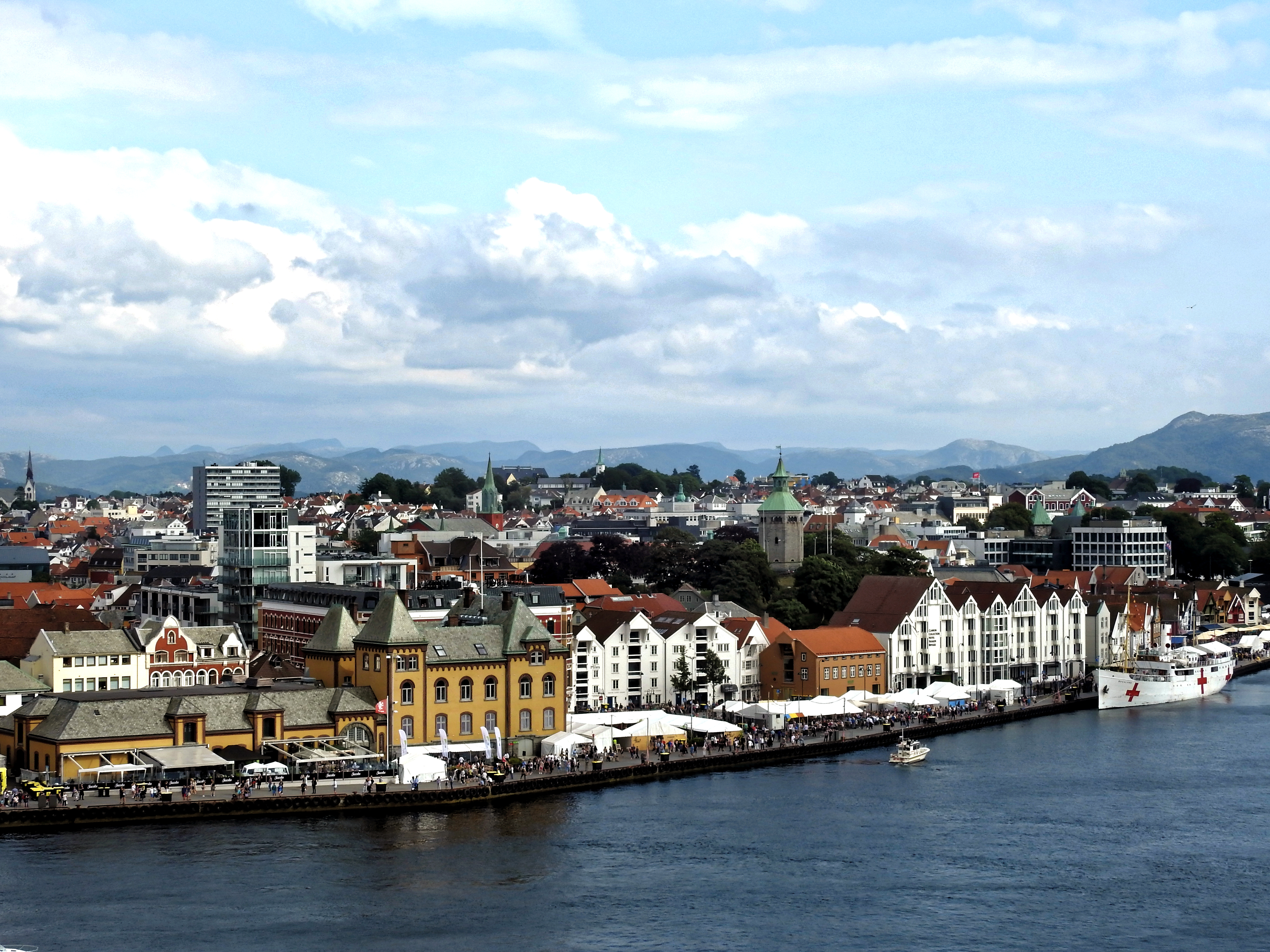 Stavanger, popular destination for cruises.